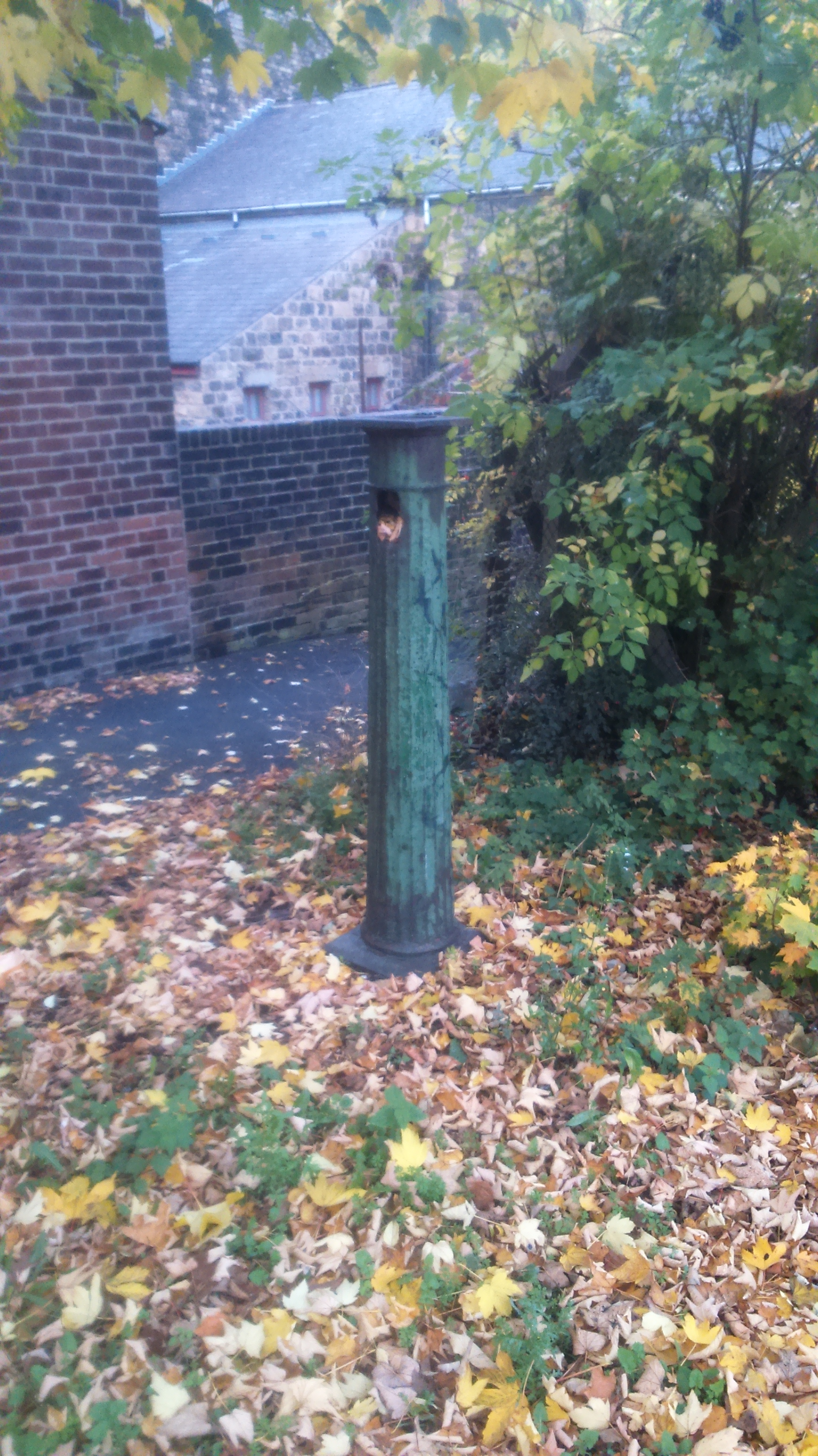 Former village pump in Grimesthorpe, now a suburb of Sheffield in England. A grade II listed structure.